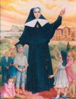 Tapestry placed in the Vatican on the occasion of the Beatification of the Mother Petra of Saint Joseph. There is a copy in the Royal Sanctuary of Saint Joseph of the Mountain, Barcelona.